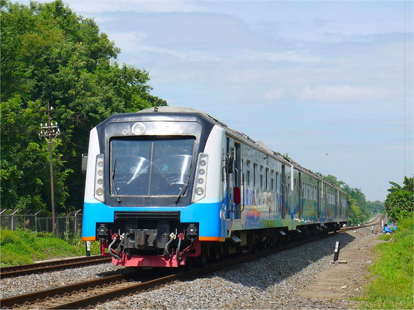 KRDI AC Madiun Jaya